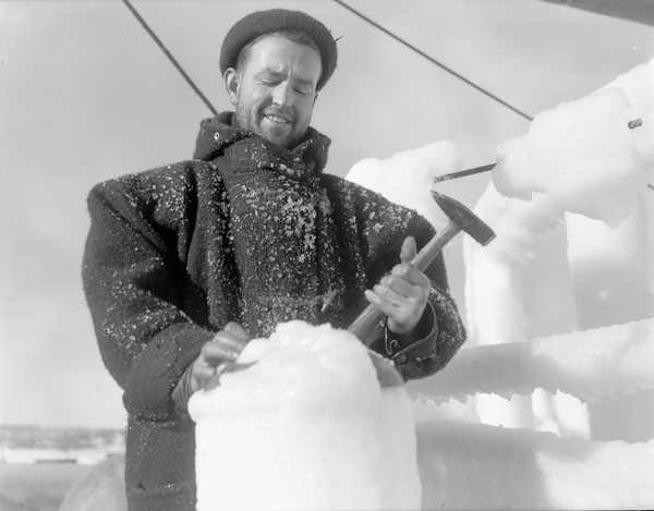 Seaman Gunner R. E. Walsh chopping ice from the superstructure of the corvette HMCS Lunenburg. At Halifax, Nova Scotia, Canada.